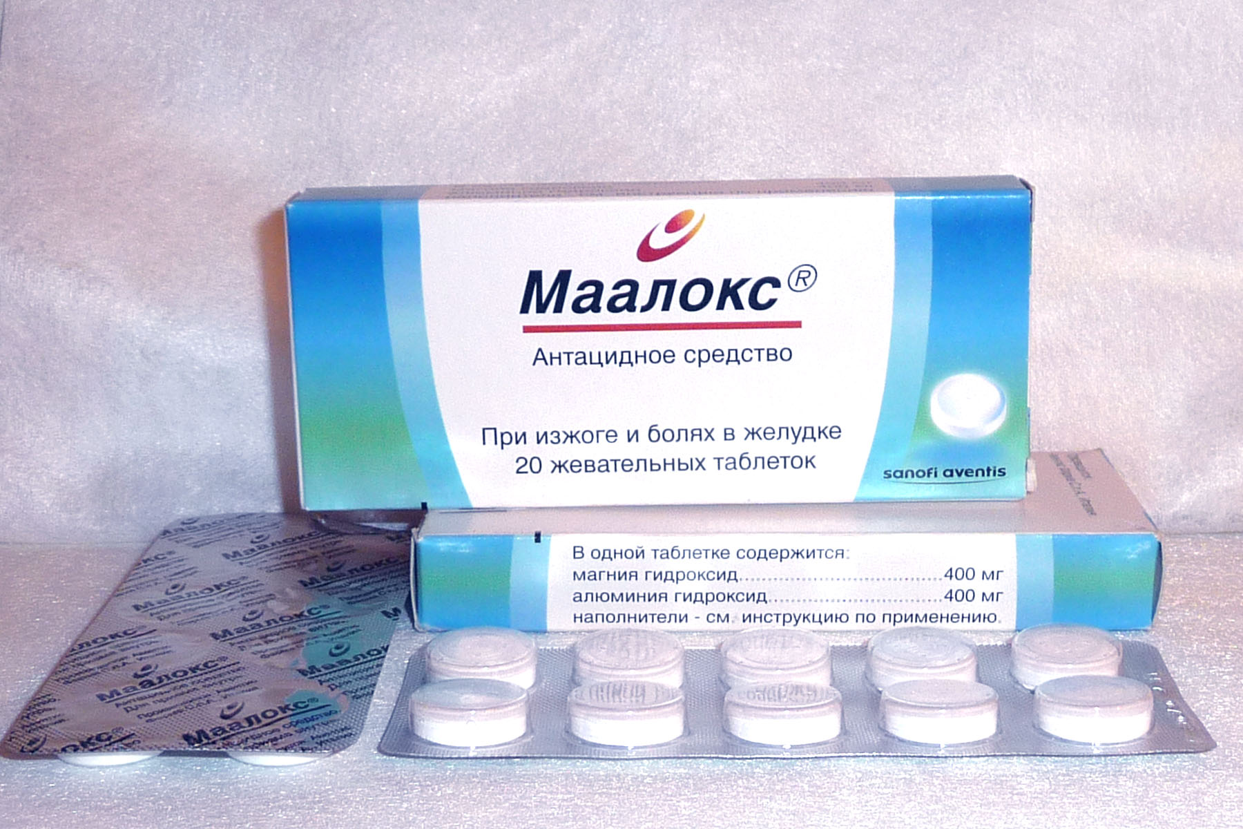 Antacid "Maalox"